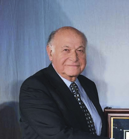 Photo of Maurice Tempelsman, 2012